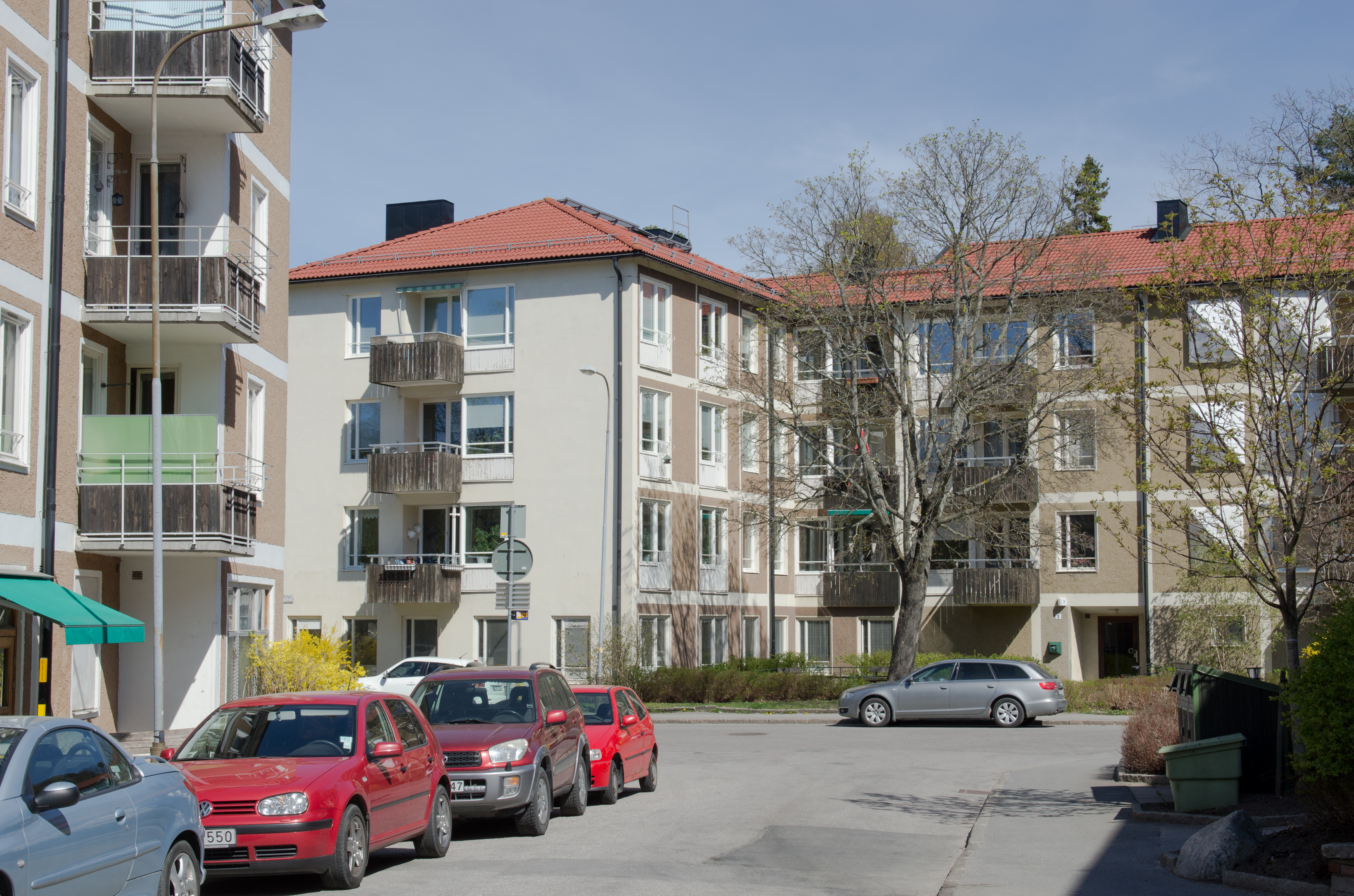 Tobaksområdet, Hökarängen.